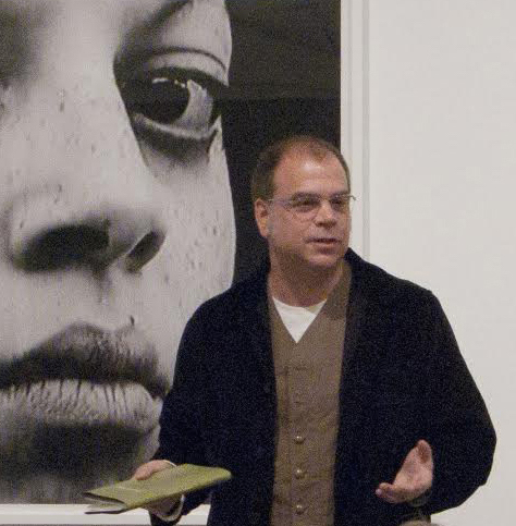 Peter Gizzi reading in 2011, in LA.